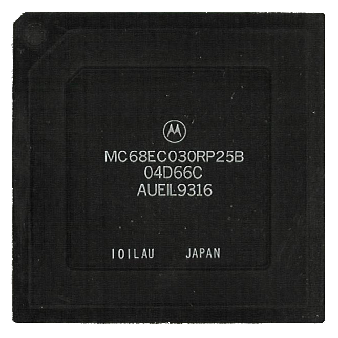 IC photo